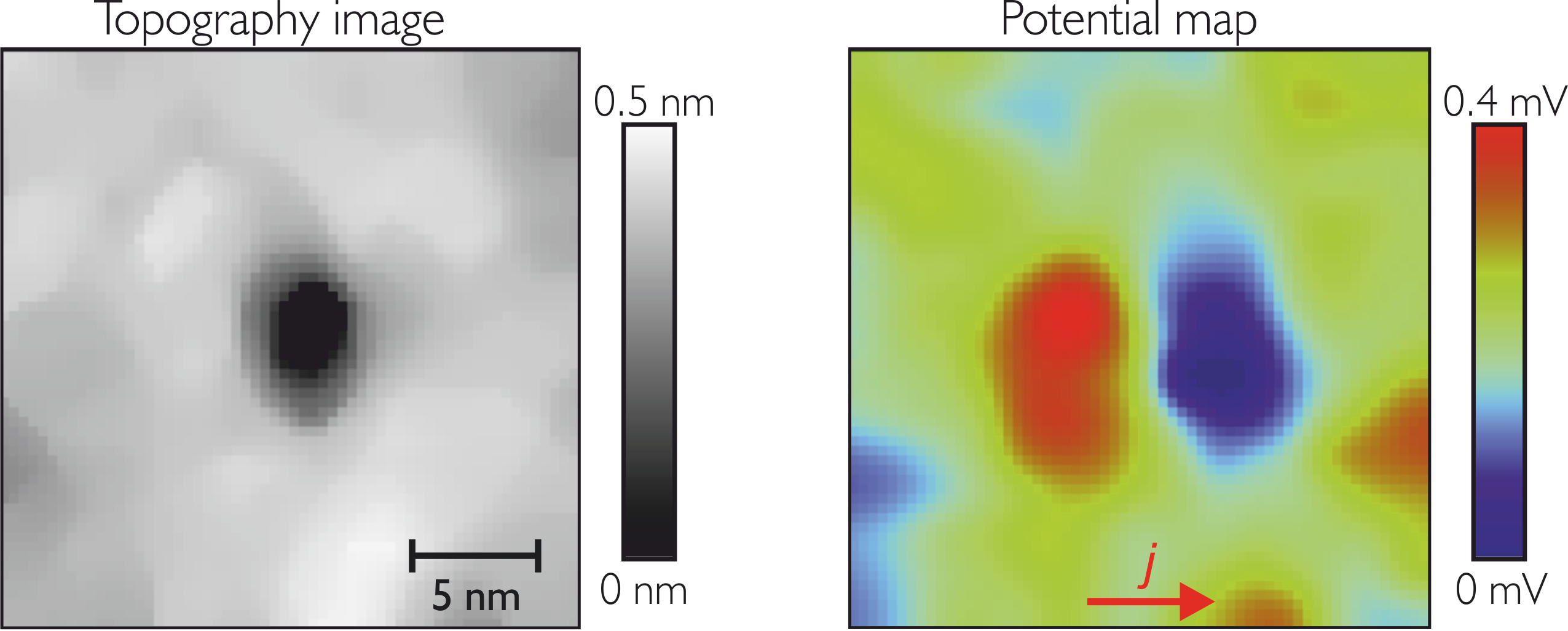 Potential map around a void